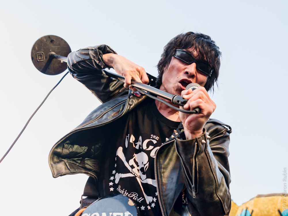 Guitar Wolf at Burger Boogaloo, Mosswood Park, Oakland 2017.